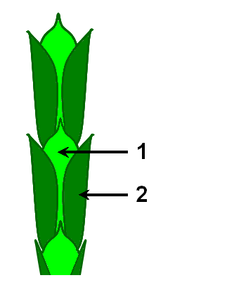 Sketch of leaves of Cupressaceae. 1: Facial leaf. 2: Lateral leaf.